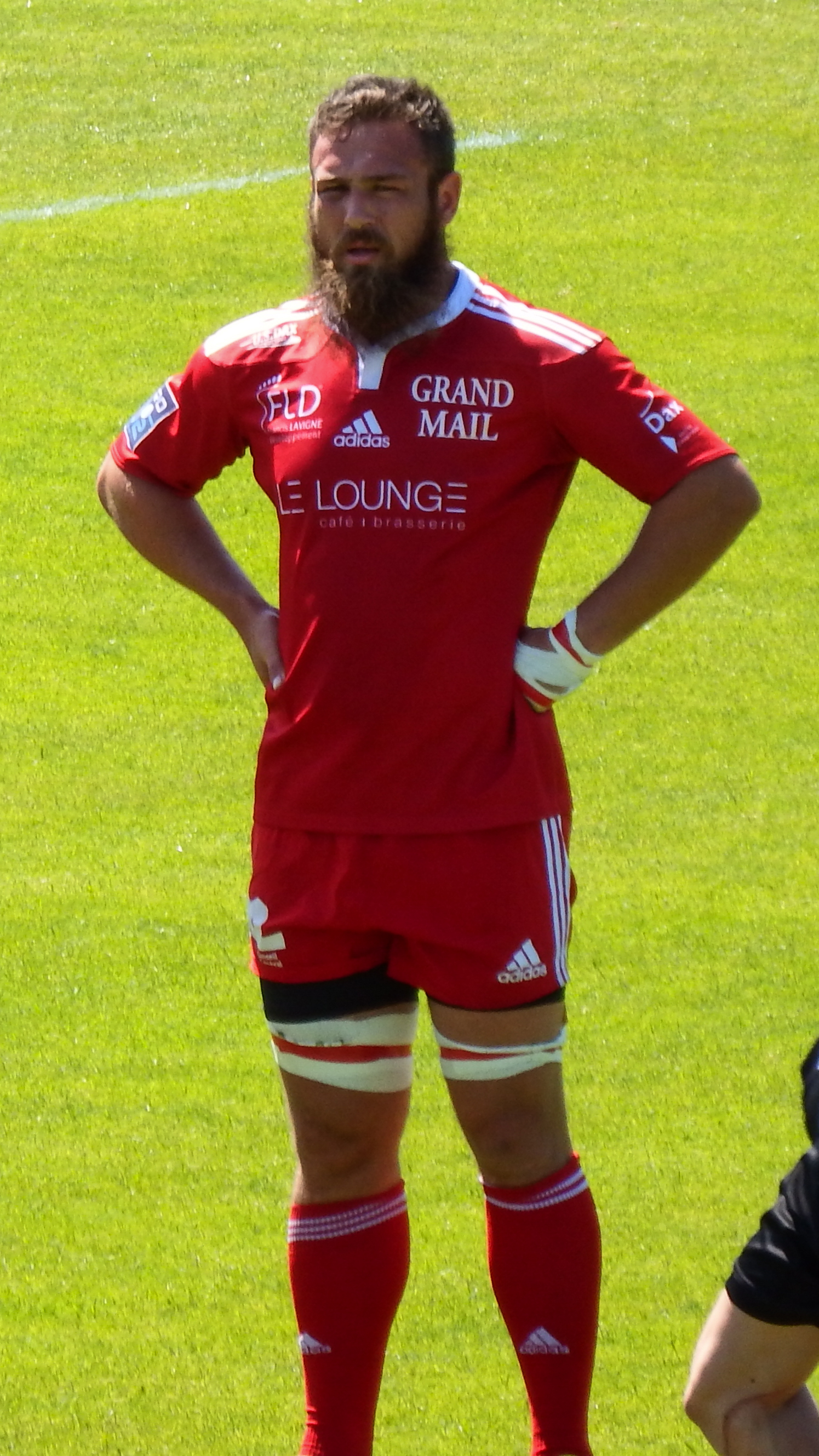 Pro D2 2014-2015 — 10 May 2015, Stade Maurice-Boyau. Match between: US Dax — Biarritz Olympique